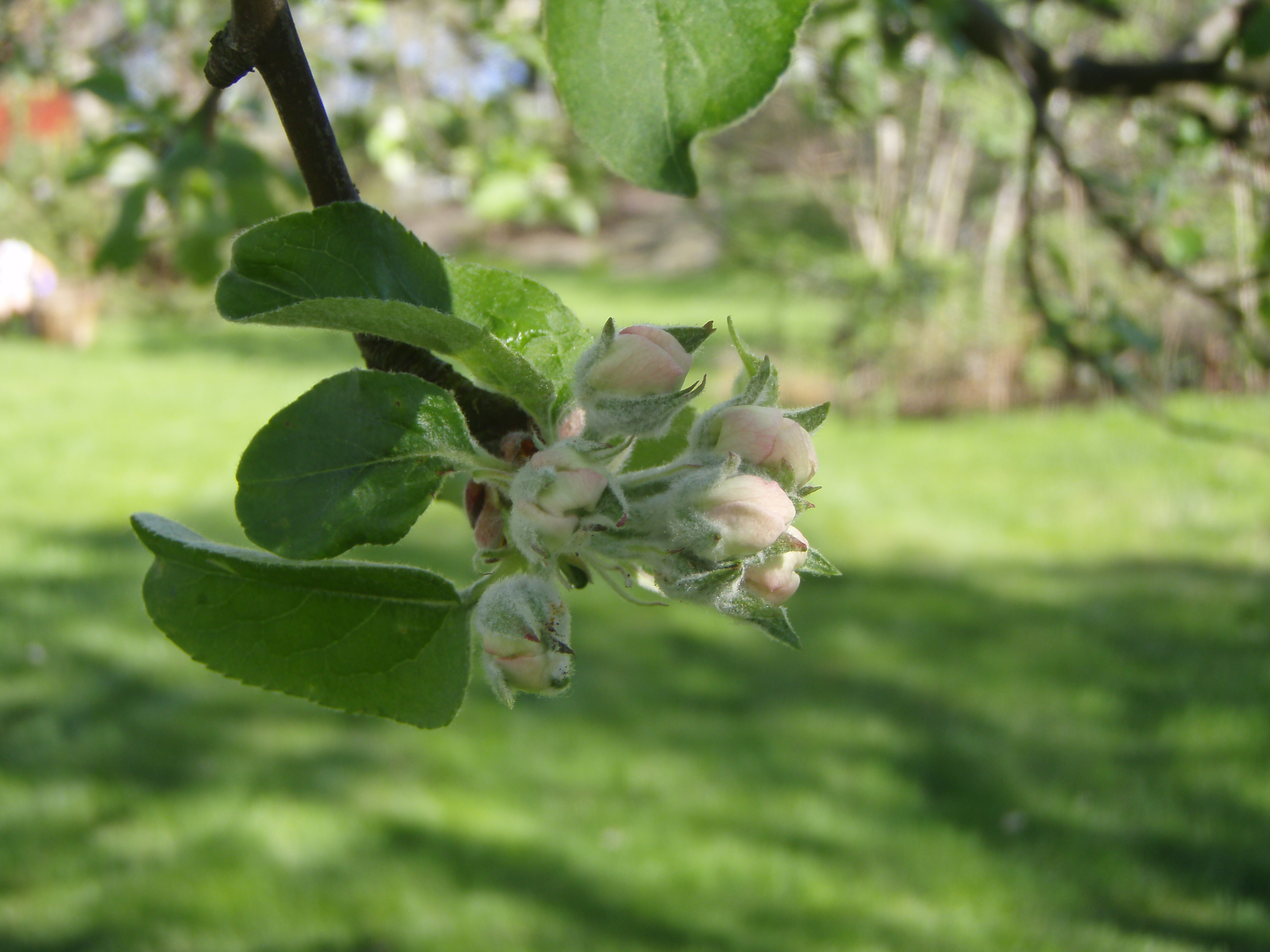 Some apple flowers in an early stage